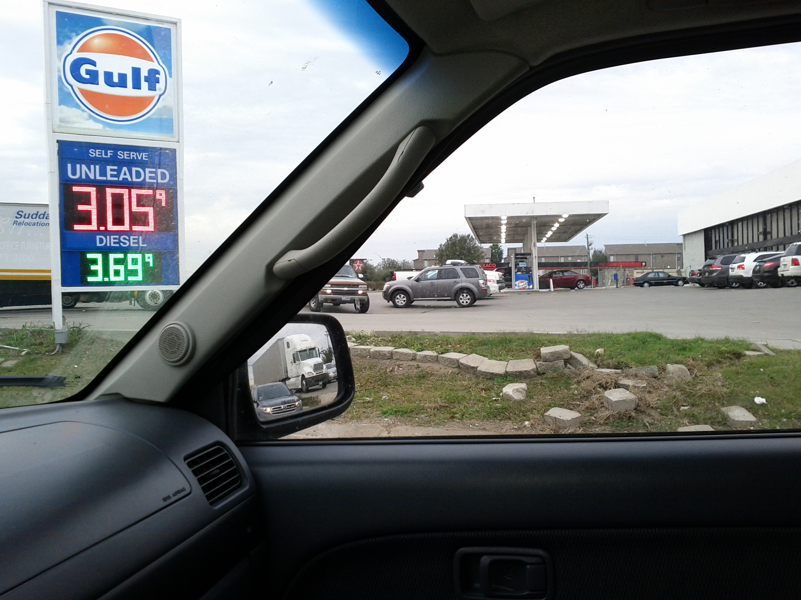 Picture of a Gulf gas station in Houston, Texas